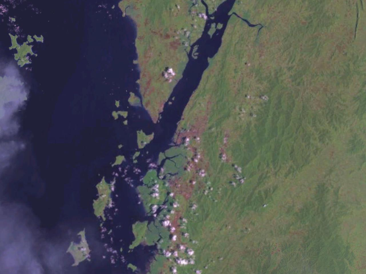 Satellite view of Ranong, Thailand.